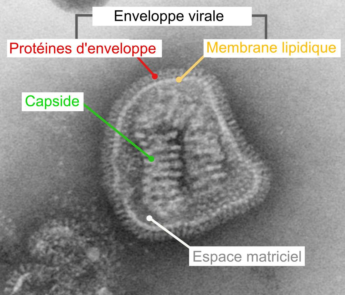 Construction of an influenzavirus (viral envelope, capsid,matrix space)